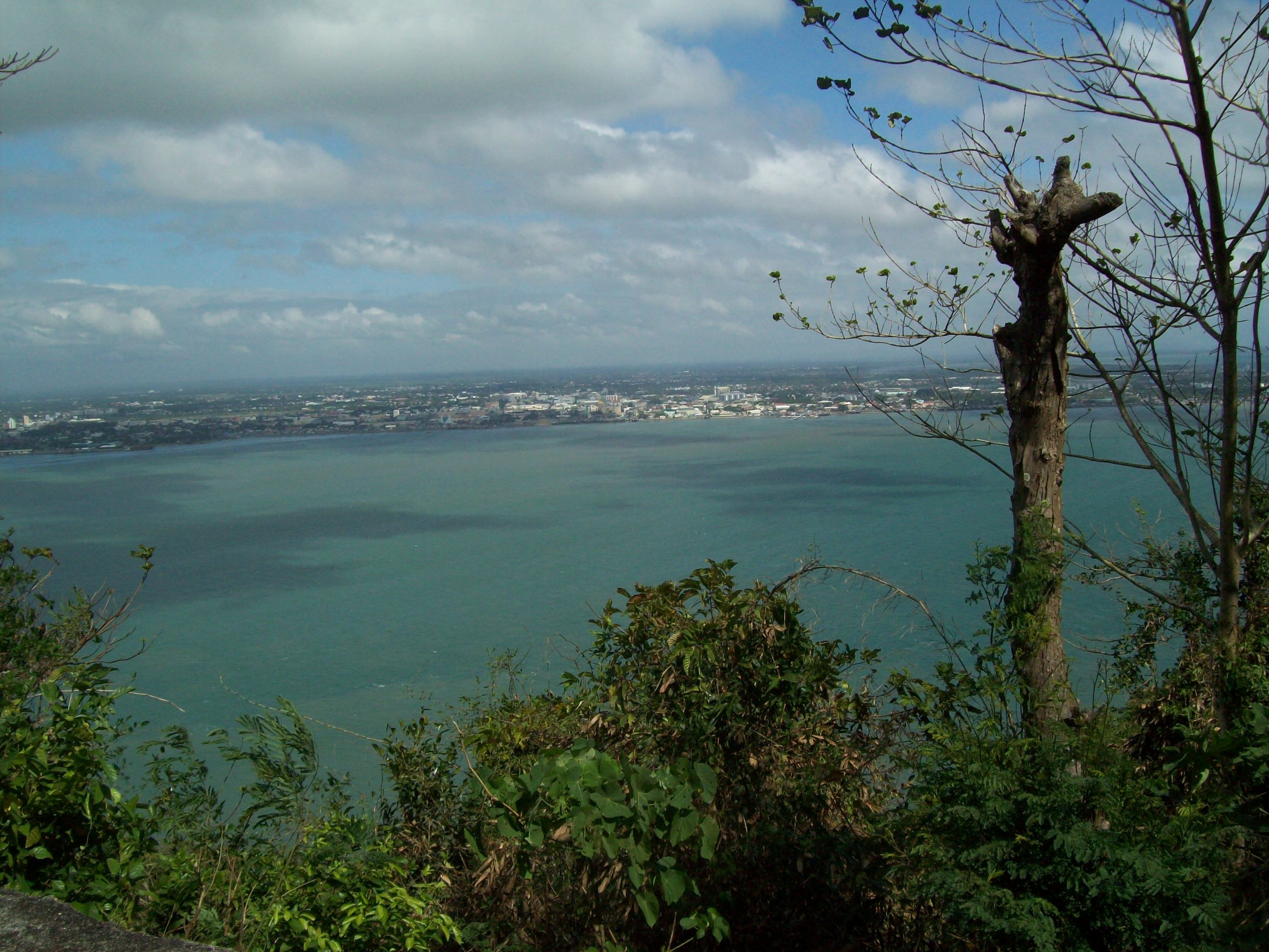 A view of Iloilo City from Guimaras. Guimaras, Philippines.